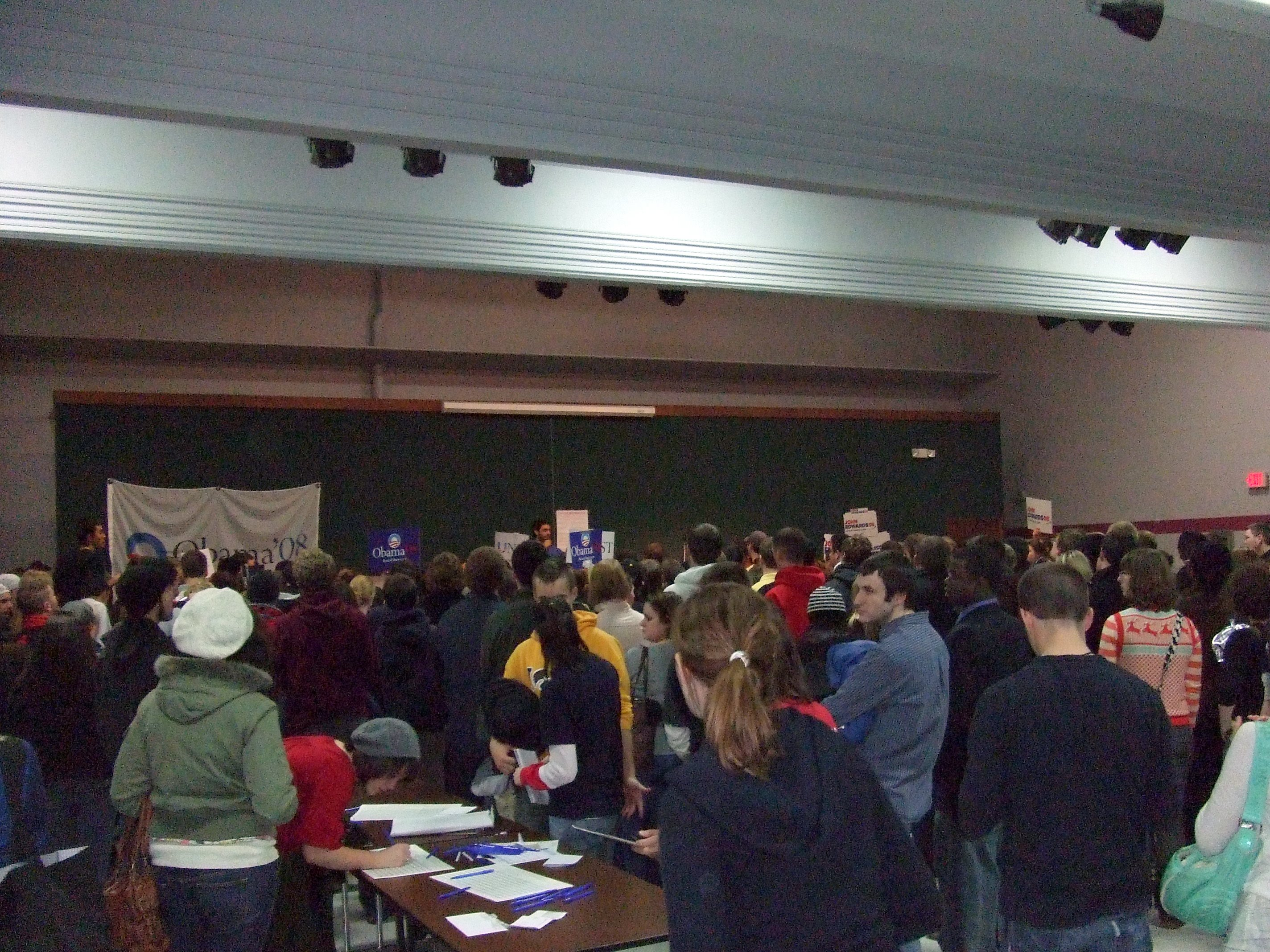 Democratic caucusgoers gather in a precinct caucus in Iowa City, Iowa January 3, 2008.